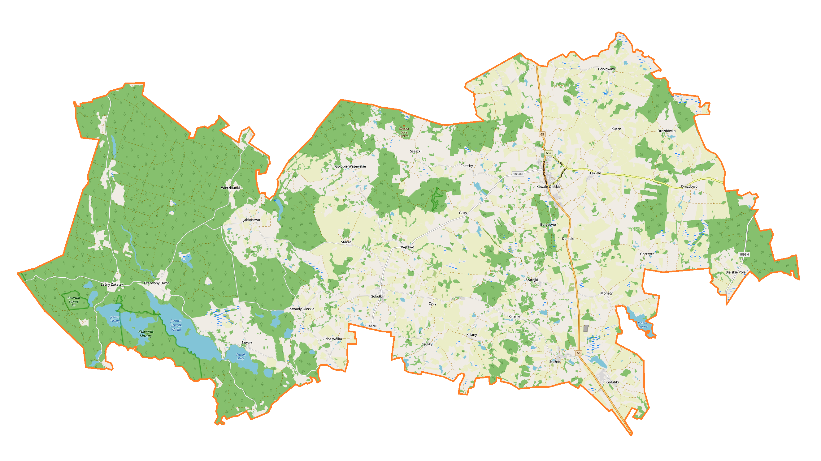 Location map